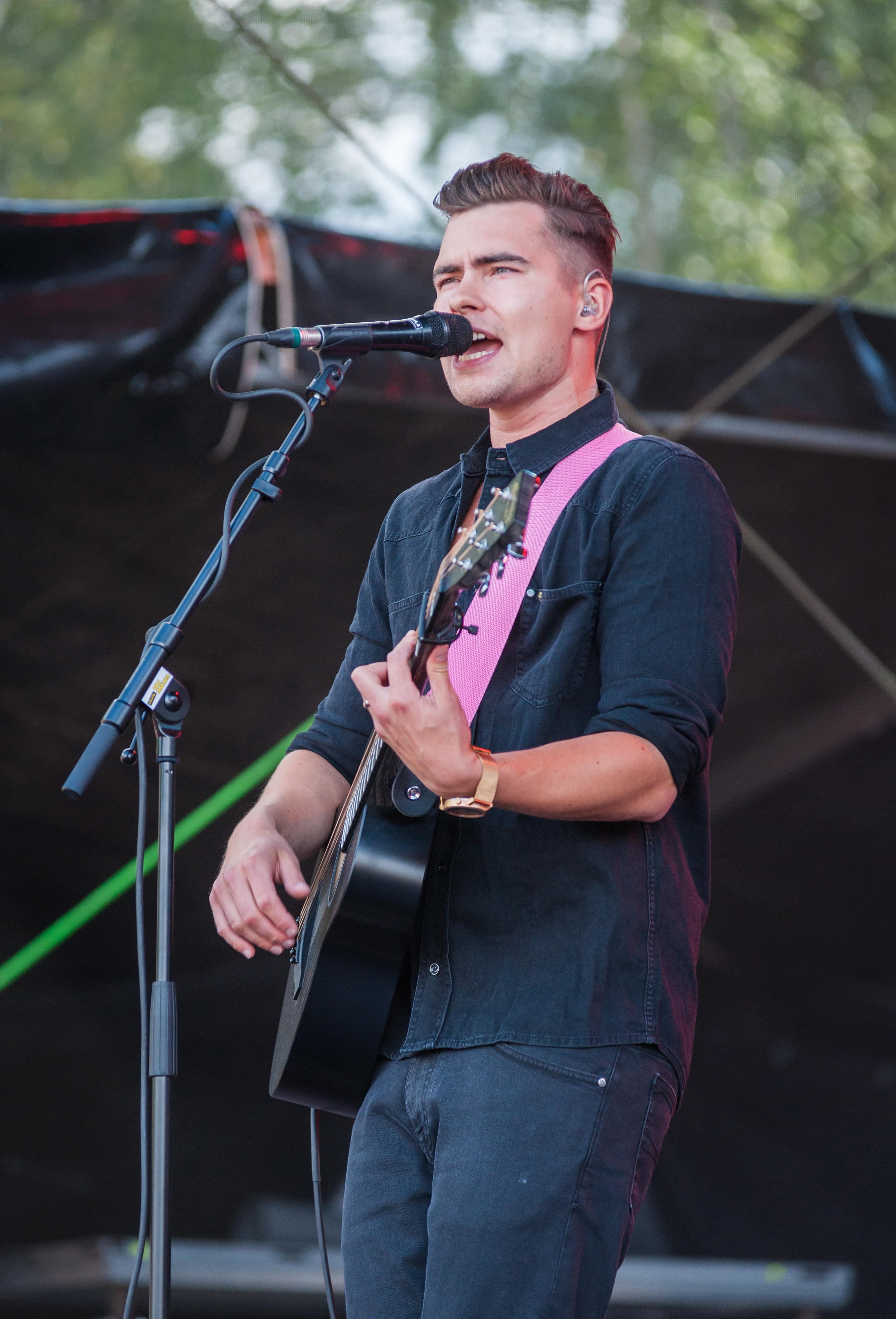 Finnish pop music duo Ida Paul & Kalle Lindroth performing at the 2018 Ilosaarirock festival in Joensuu, Finland.